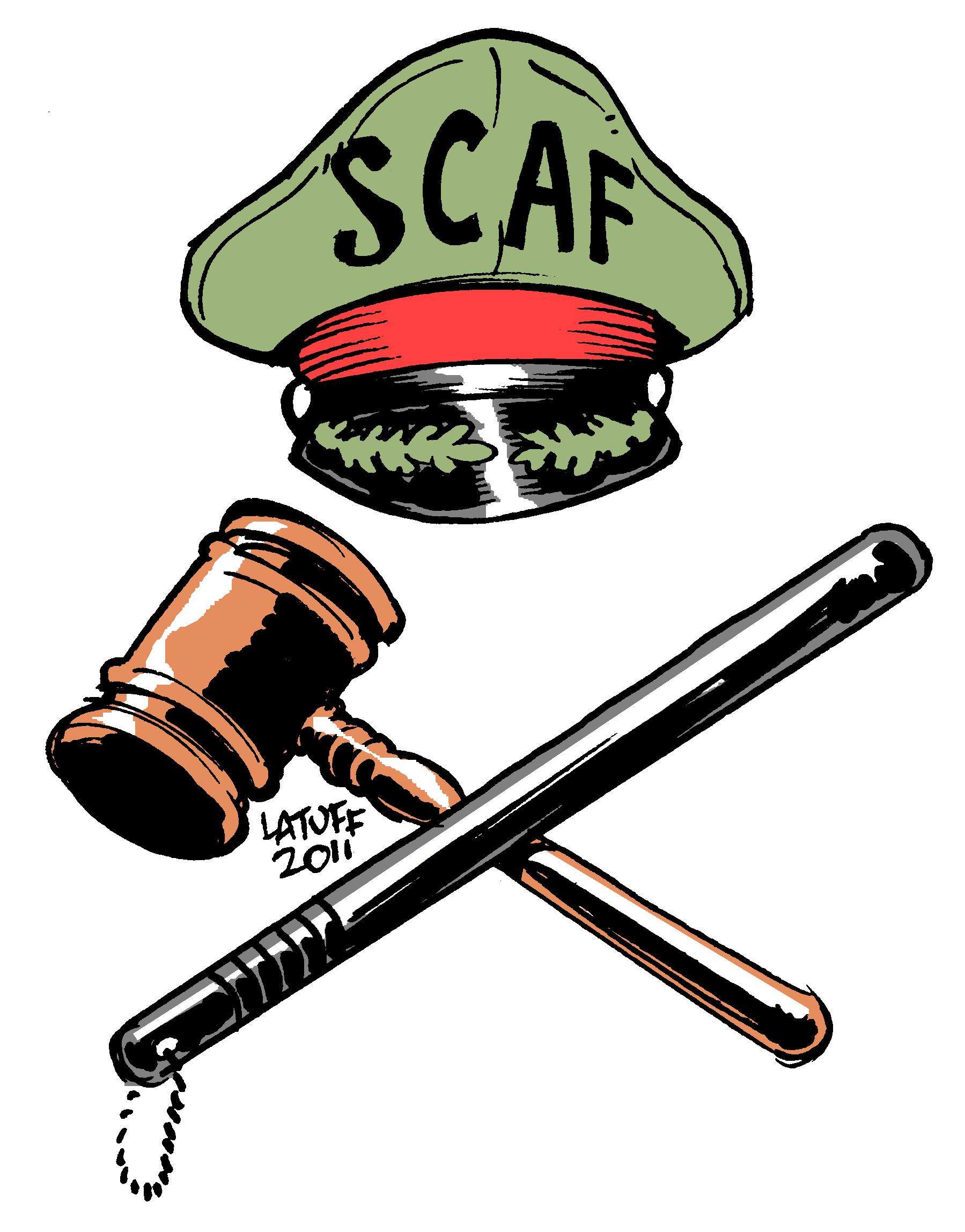 SCAF being the Judge, jury and executioner